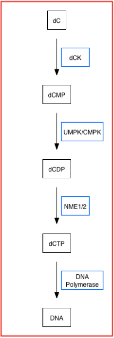 This pathway focuses particularly on dCK's role in converting deoxycytidine (dC) into deoxycytidine monophosphate (dCMP) and how the salvage pathway eventually forms the nucleotide deoxycytidine triphosphate (dCTP). dCTP is then incorporated into DNA by DNA polymerase.